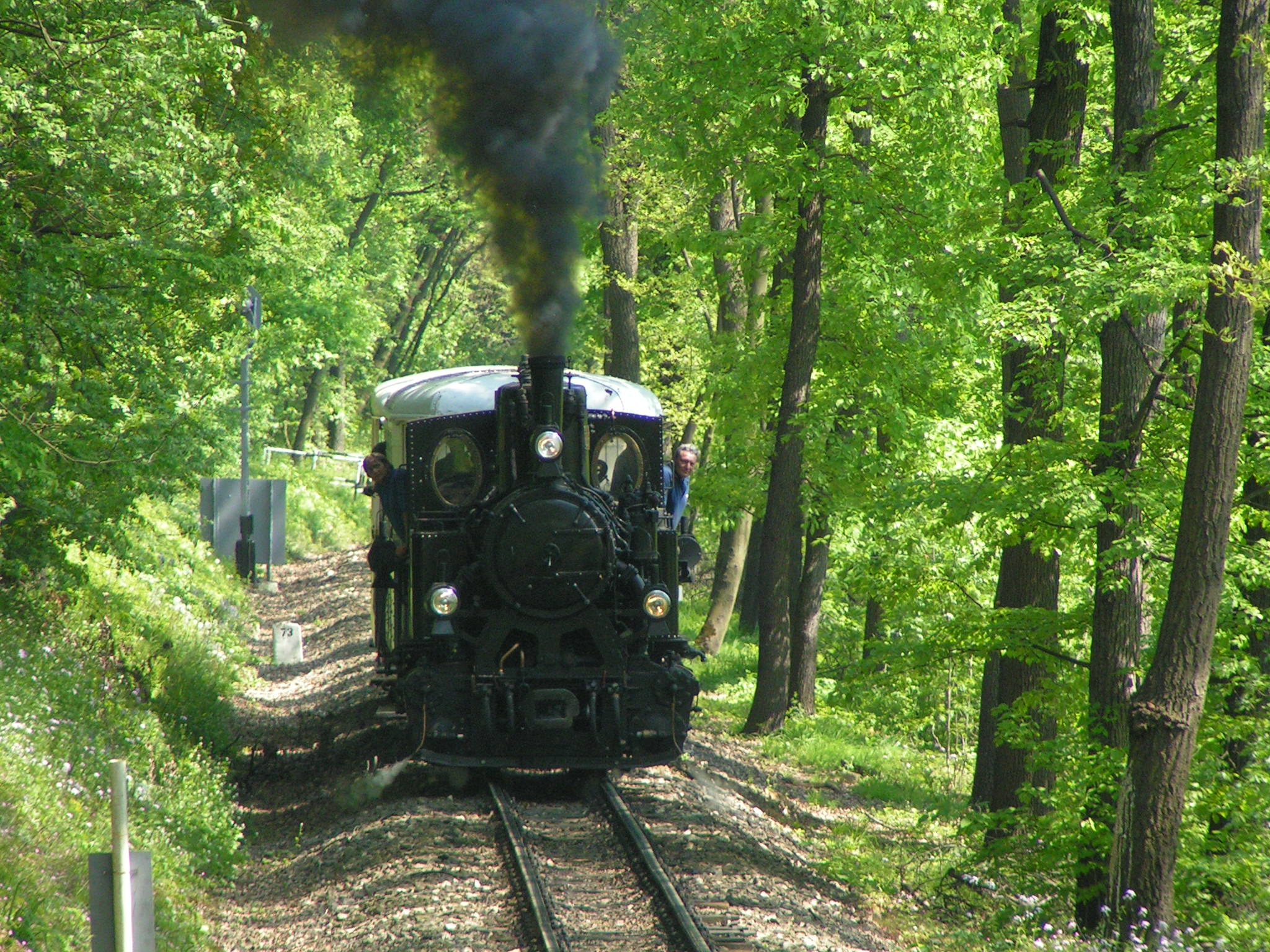 Nostalgic train on the mountain